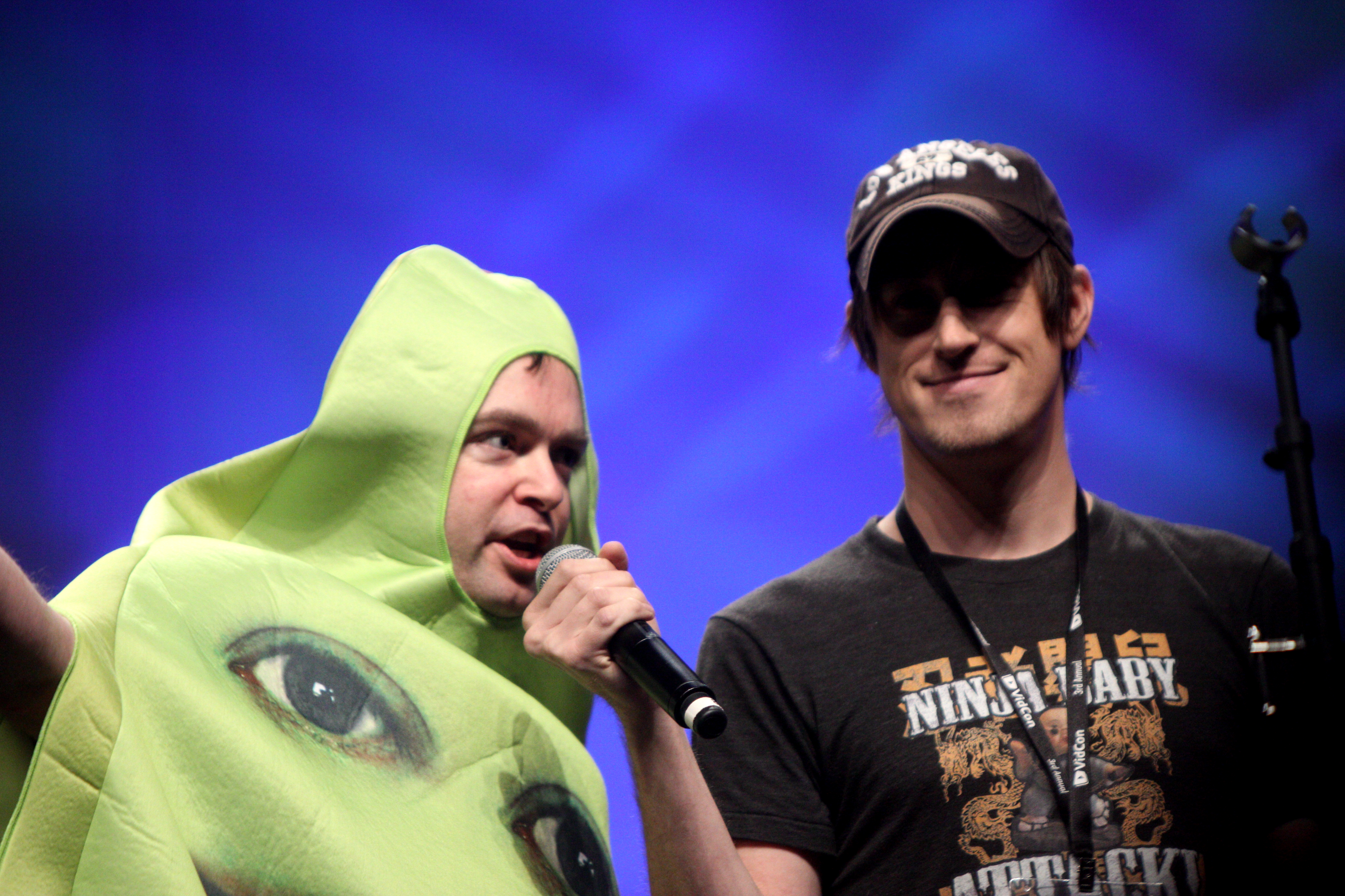 Dane Boedigheimer with his brother Luke at Vidcon 2012 held in the Anaheim, California Convention Center